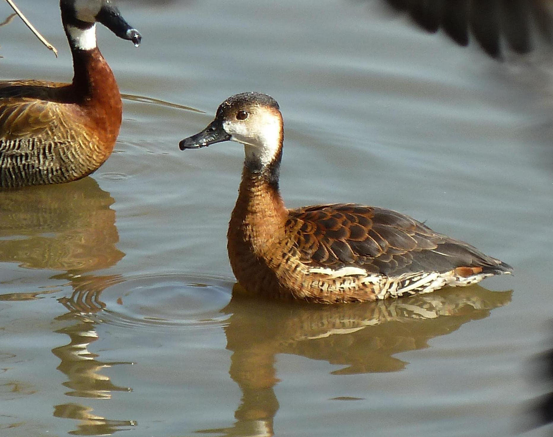 Immature White-faced Duck at Austin Roberts Bird Sanctuary, Pretoria